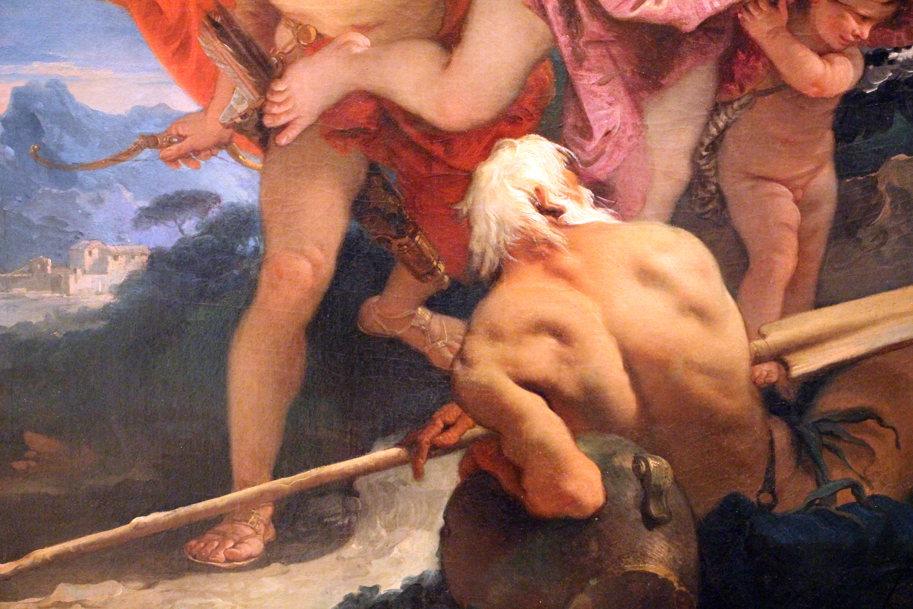 Italian paintings in the Louvre